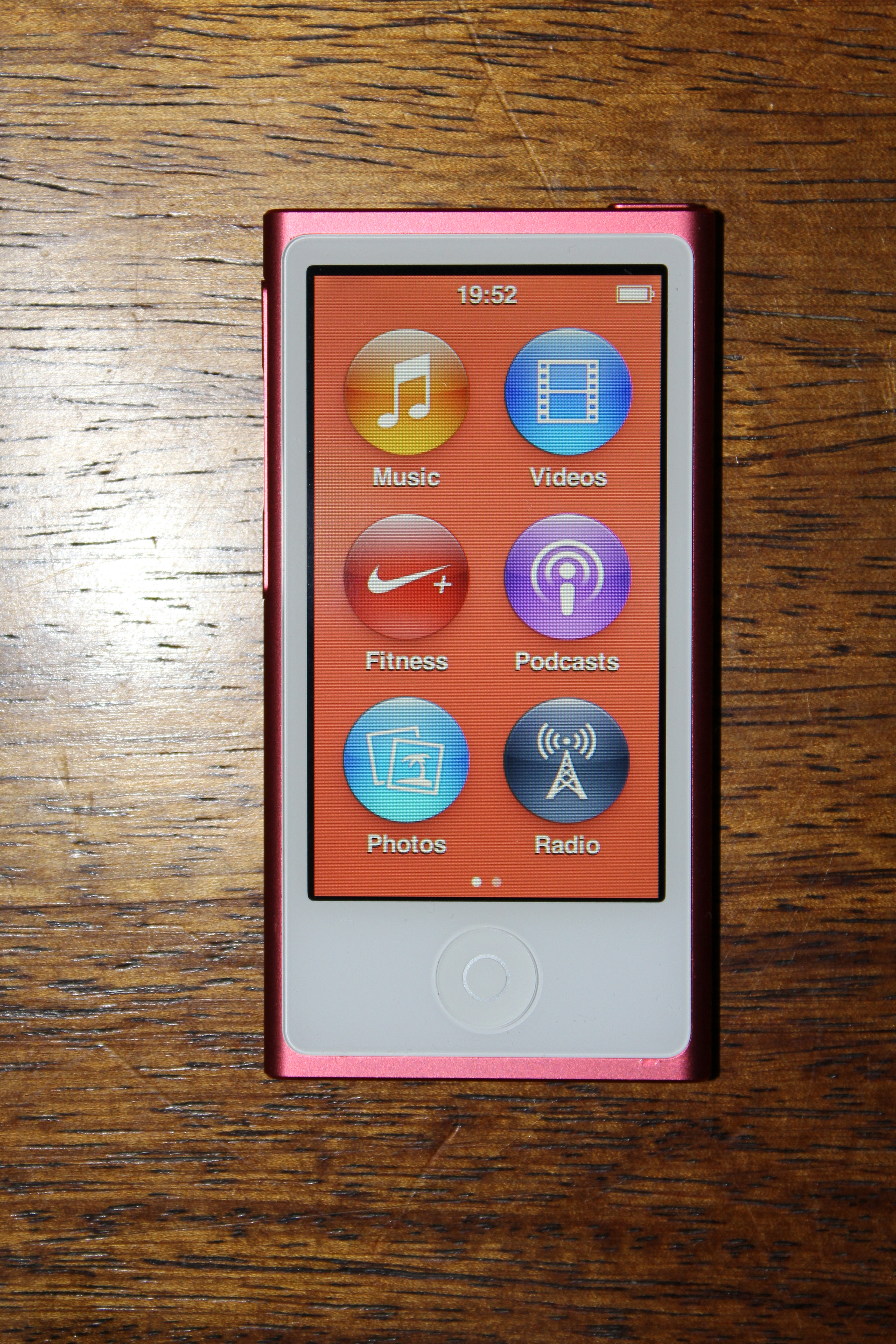 Apple's 7th Generation iPod Nano pink front.